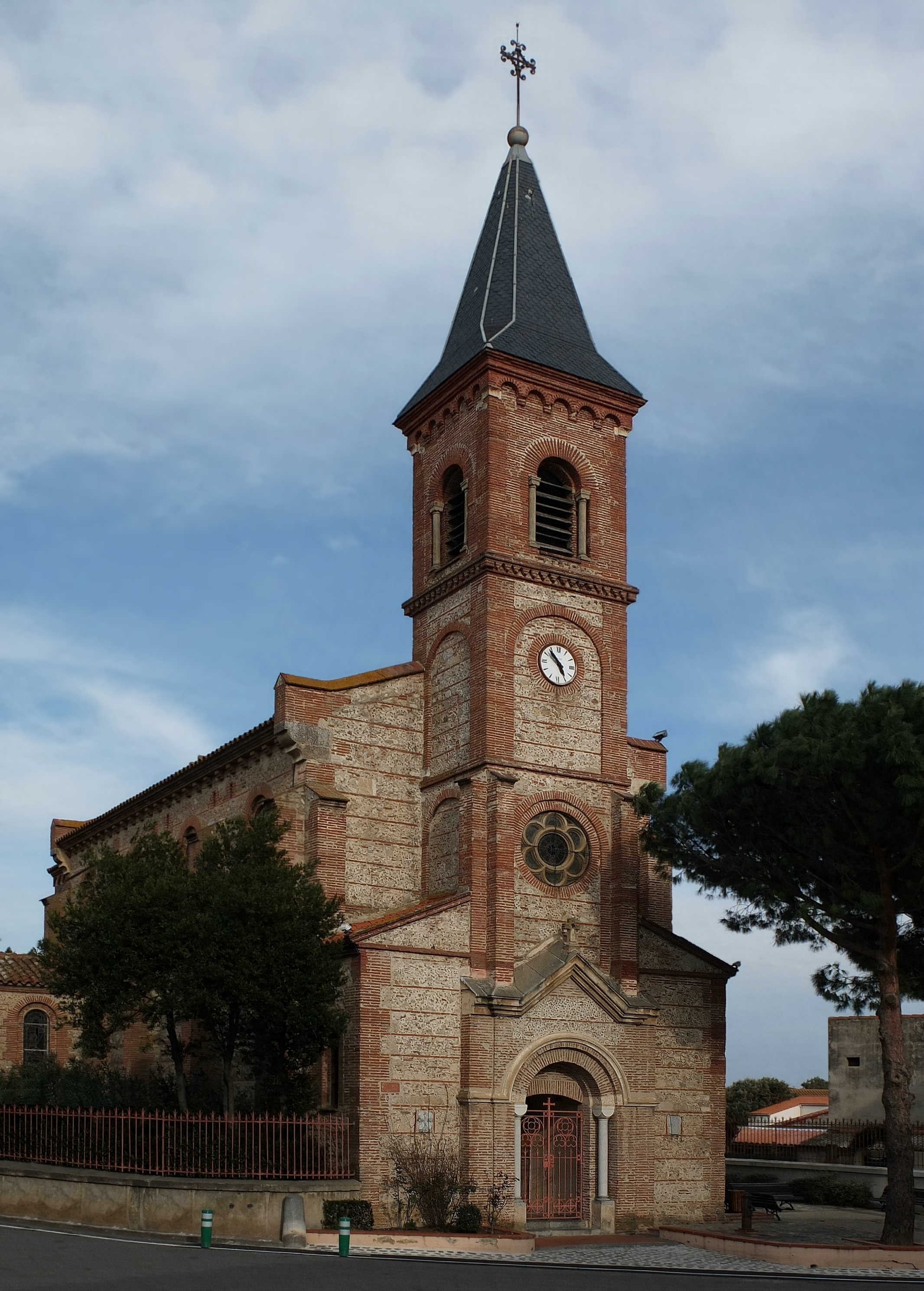 Corneilla-del-Vercol, France, Church Saint-Christophe (view west)